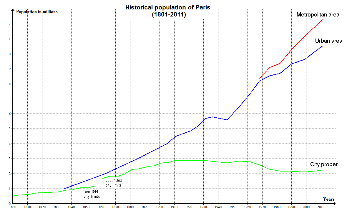 Historical populations of the city, urban area, and metropolitan area of Paris from 1801 to 2010.